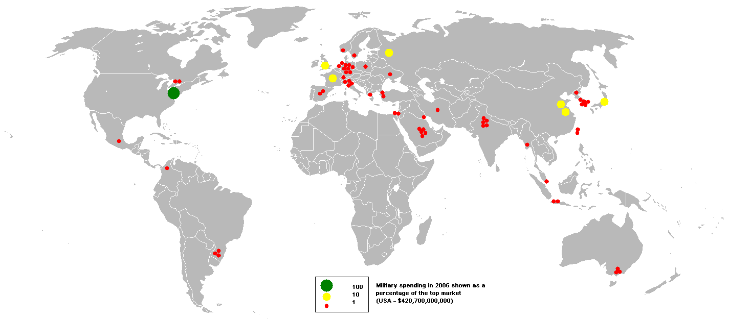 This bubble map shows the global distribution of military budgets in 2005 as a percentage of the top market (USA - $420,700,000,000). This map is consistent with incomplete set of data too as long as the top market is known. It resolves the accessibility issues faced by colour-coded maps that may not be properly rendered in old computer screens. Data was extracted on 29th June 2007 from